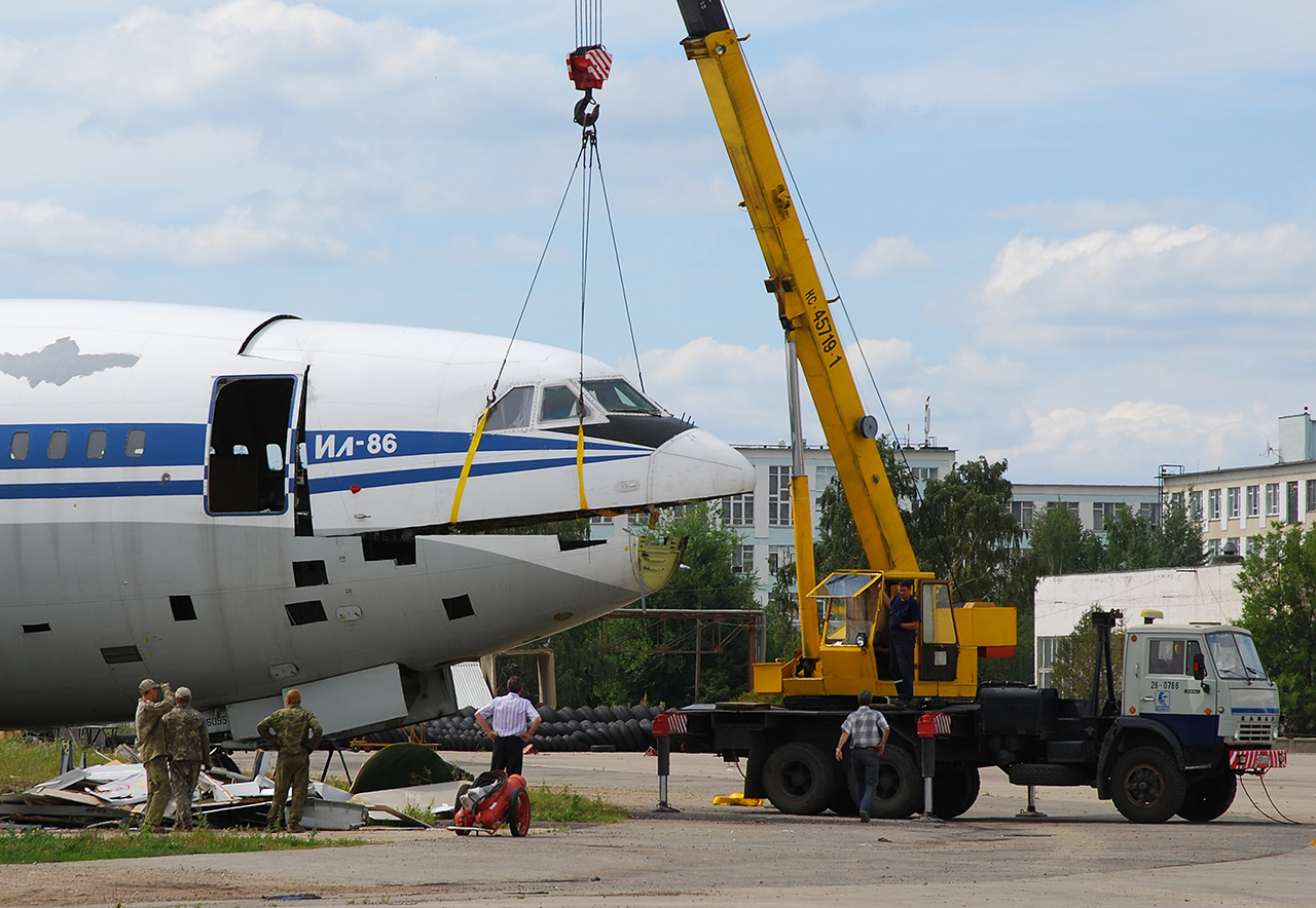 IL-86 RA-86095 Scissor cockpit.